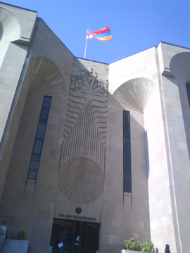 Armenian flag on the Yerevan city hall